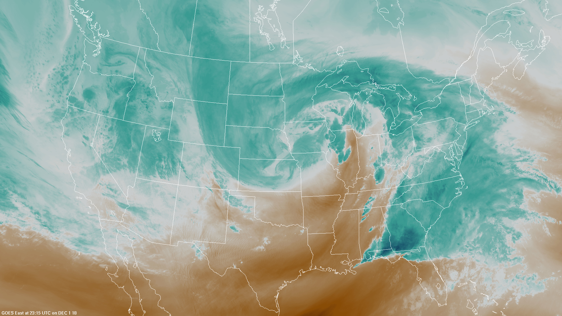 Water vapor imagery of a large storm complex across the United States at 19:18z on December 1, 2018.